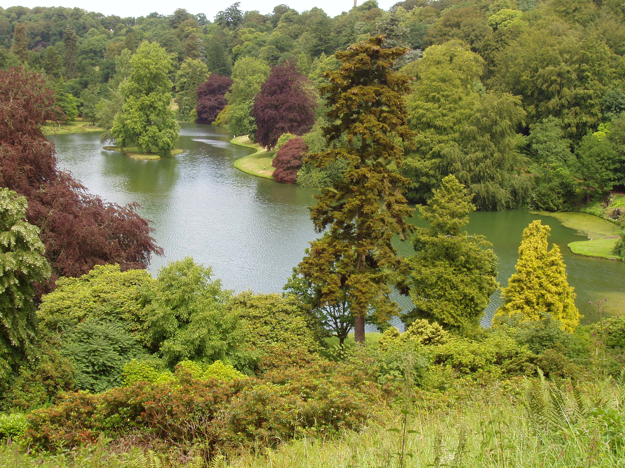 Stourhead (England) after a rain, view from atop a hill. Personal photo taken with very wet camera. Photograph taken by me, from the Temple of Apollo.